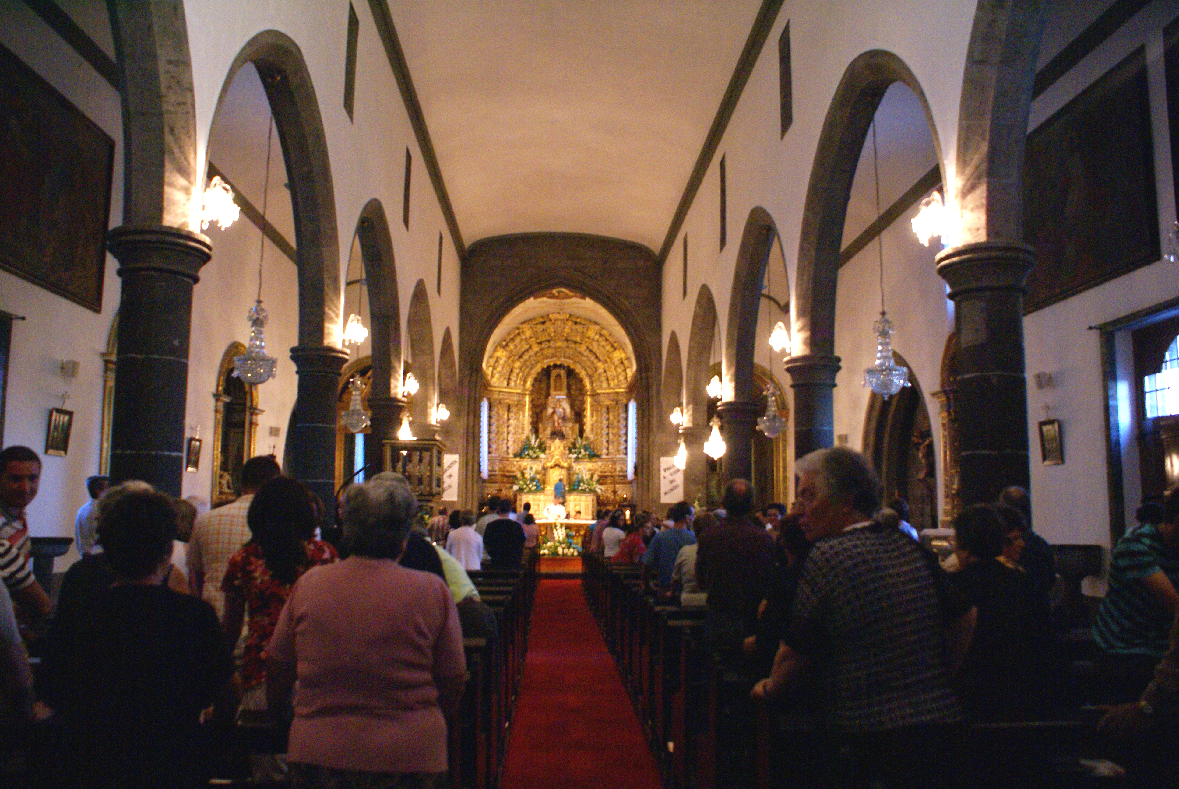 Central nave of the Church of São Miguel Arcanjo, Vila Franca do Campo, São Miguel (Azores), Portugal